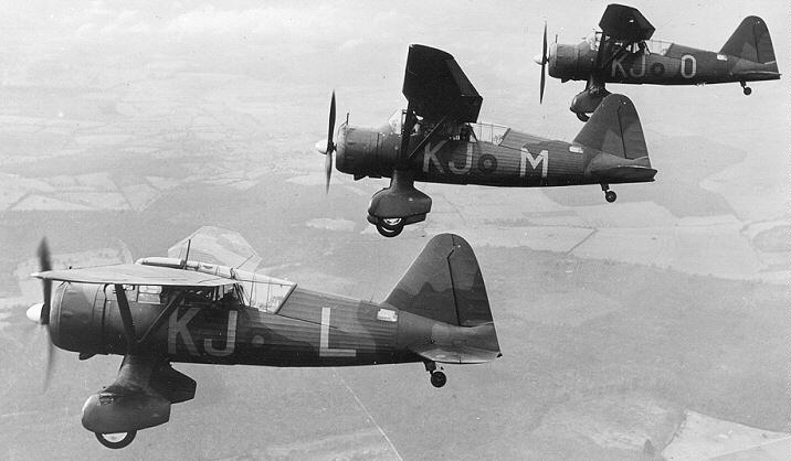 Lysander airplanes during WWII.